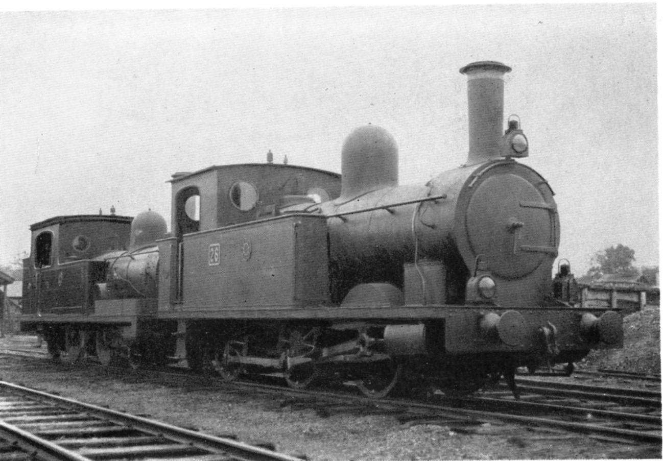 Japan Government Railway type 1530 steam locomotive